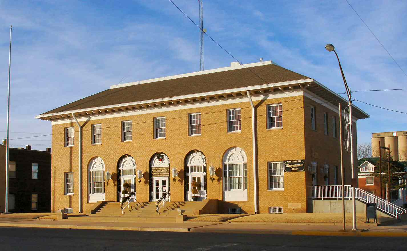 Cavanaugh, Harry